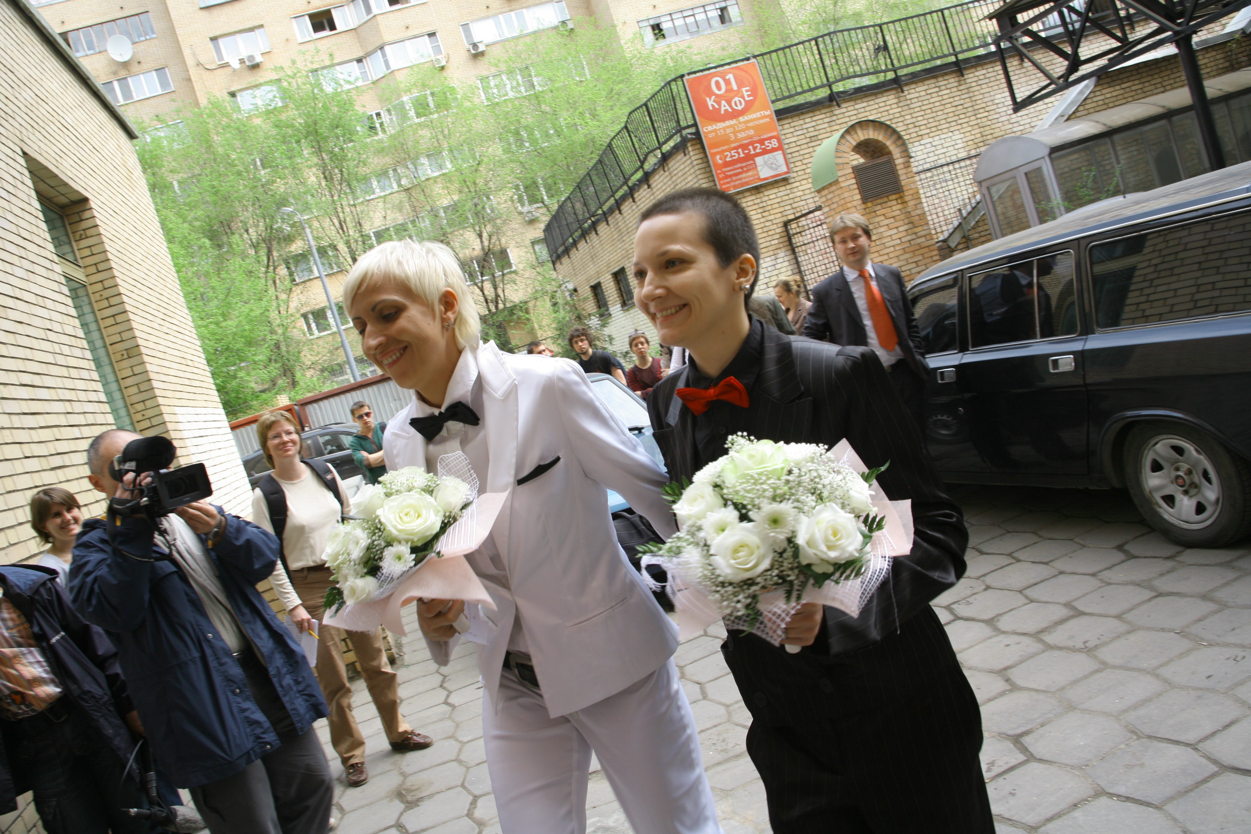 This is one of the photos taken during the attempt to register a same sex marriage in Moscow, Russia, on May 12, 2009.